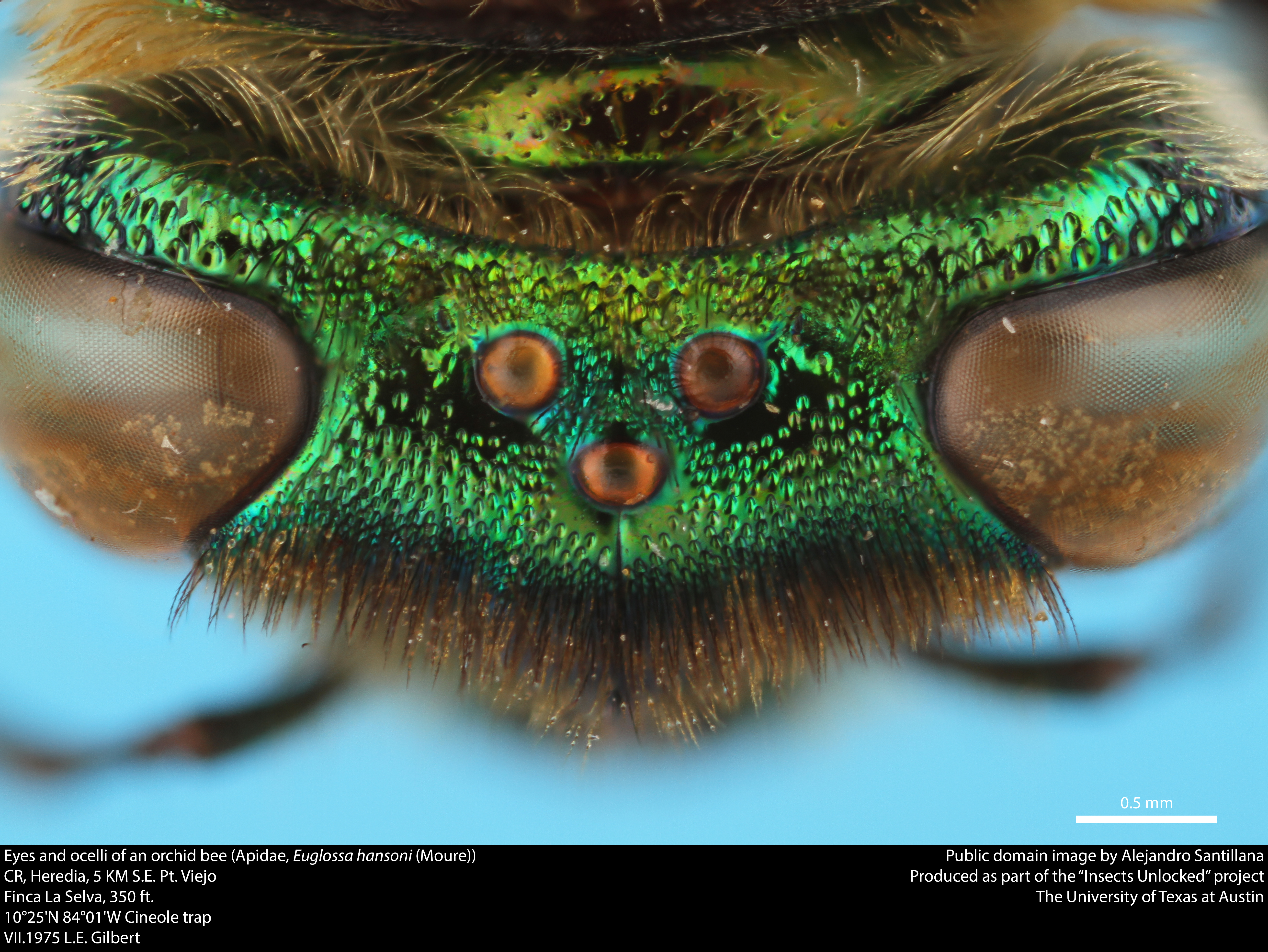 Eyes and ocelli of an orchid bee (Apidae, Euglossa hansoni (Moure)) CR, Heredia, 5 KM S.E. Pt. Viejo Finca La Selva, 350 ft. 10°25'N 84°01'W Cineole trap VII.1975 L.E. Gilbert This image was created as part of the Insects Unlocked project at the University of Texas at Austin. Based in the UT insect collection at Brackenridge Field Laboratory, part of the Department of Integrative Biology. Do not crop: This image is used on one or more sister projects, where its entire contents are wanted. If you crop it, please save the new image separately, and do not overwrite this